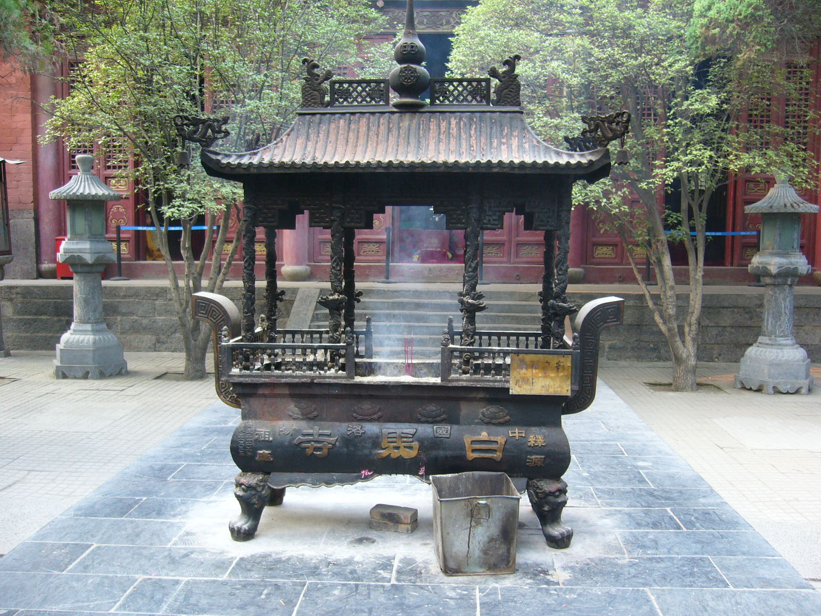 A Xianglu at White Horse Temple, in Luoyang, Henan, China.